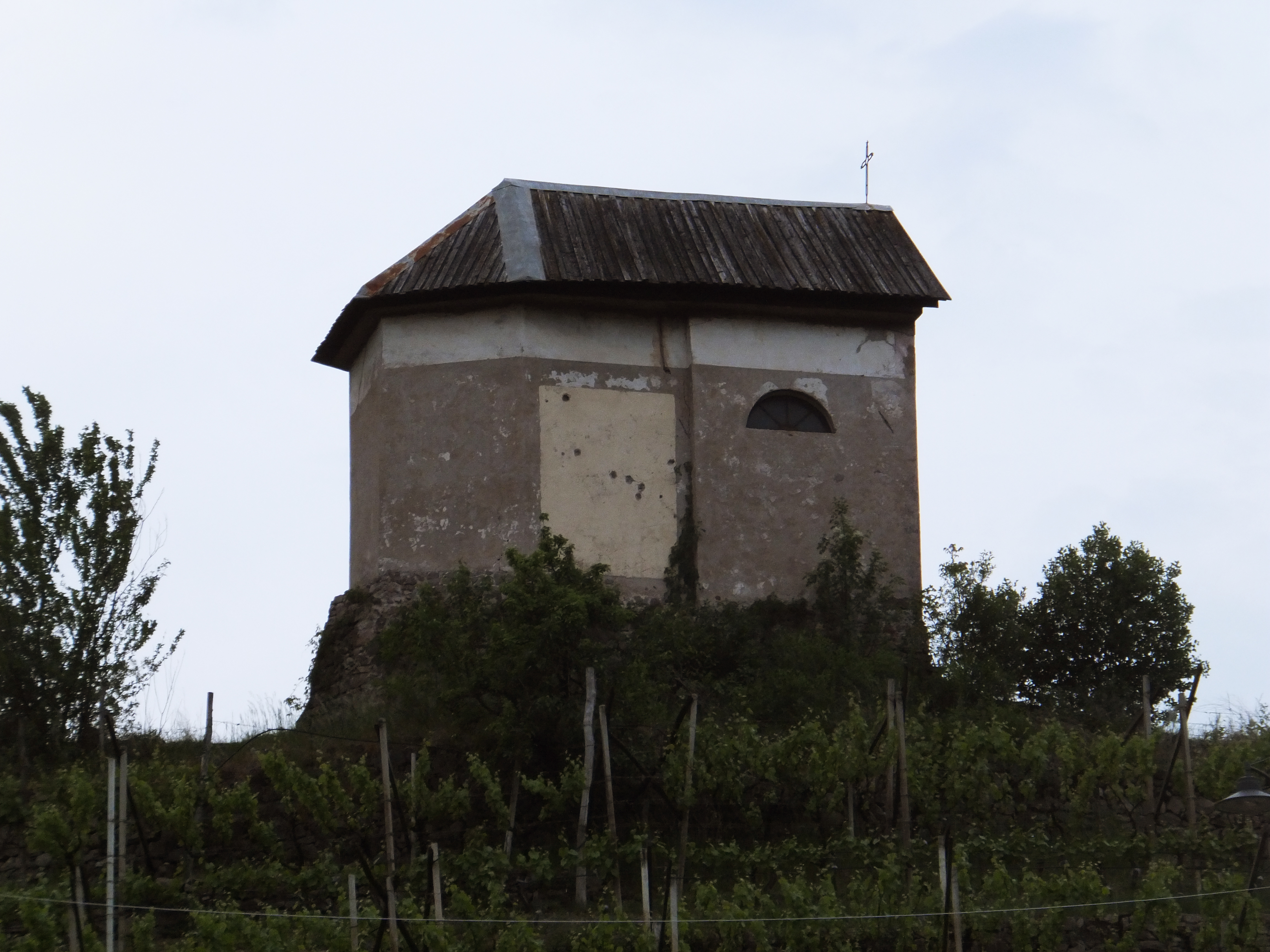 Piazzo, Segonzano - Saint Anthony chapel - side view; signs of the bullets shot from french troops during the battle of Segonzano, in 1796, are still visibile